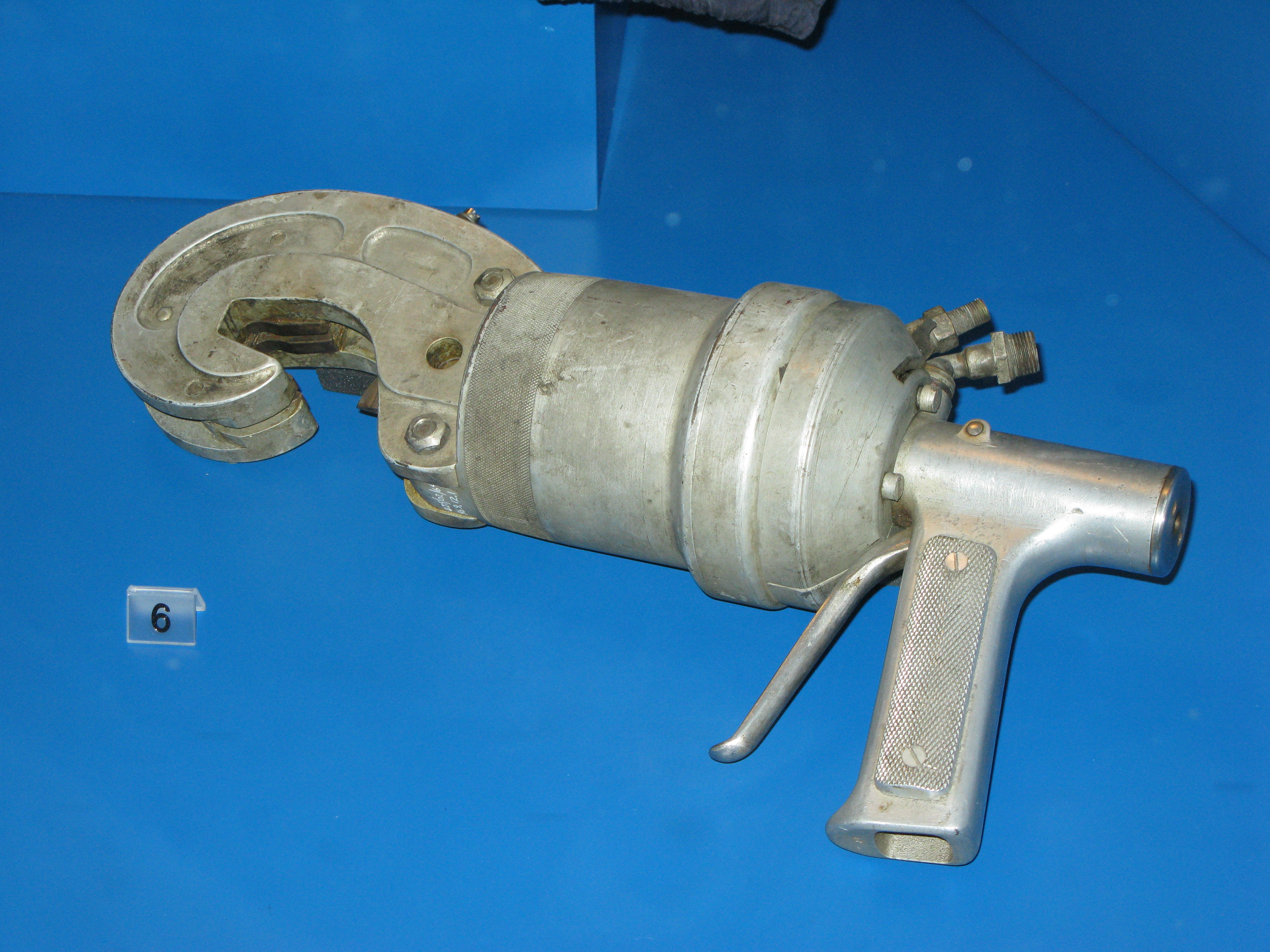 Photo of a hydraulic net cutter of the type used by X boat divers.